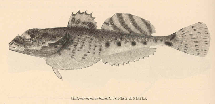 Cottisculus schmidti Jordan & Starks Subject: Cottidae, Cottisculus Tag: Fish